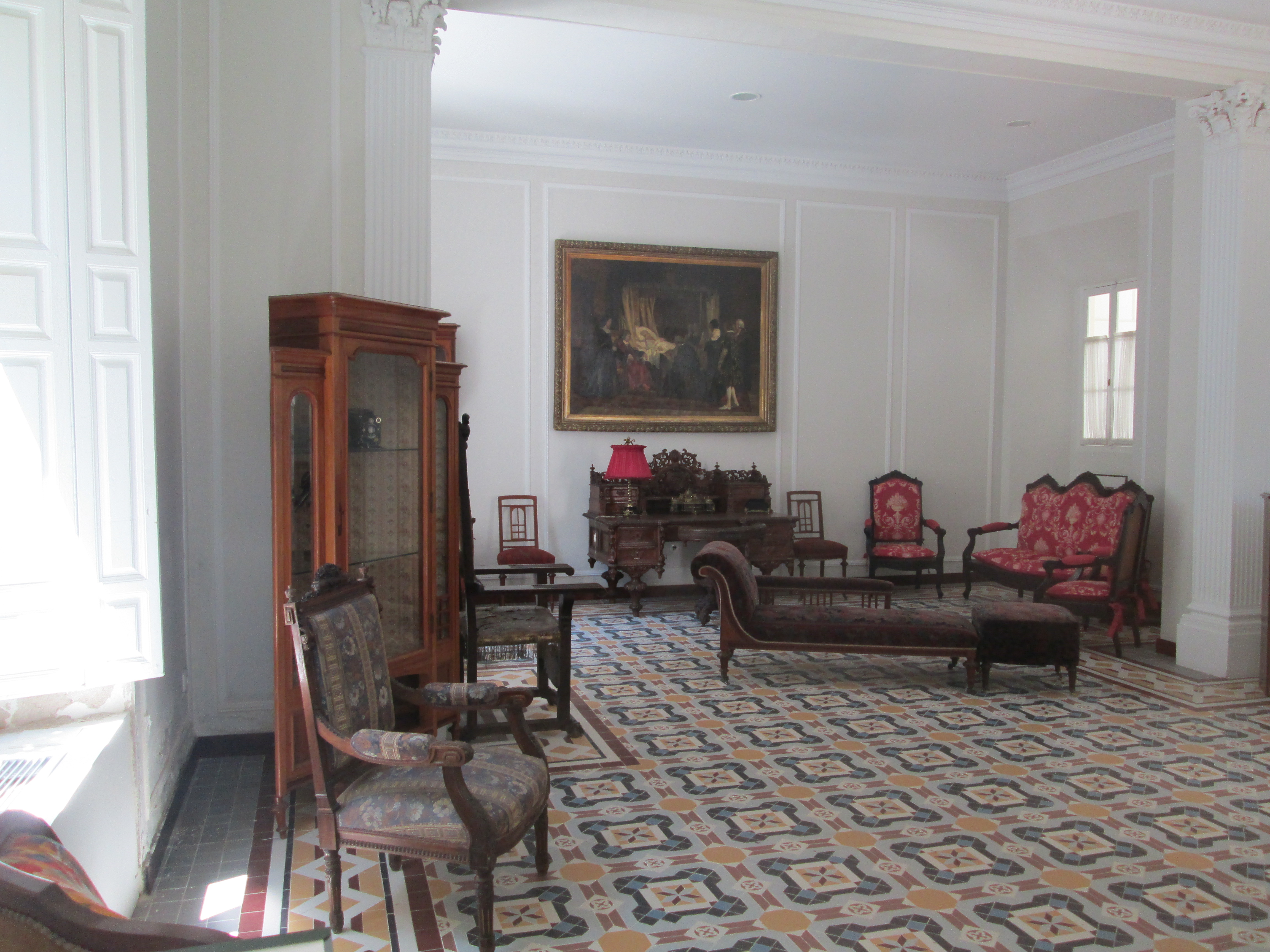 Casa-palacio de la Concepción